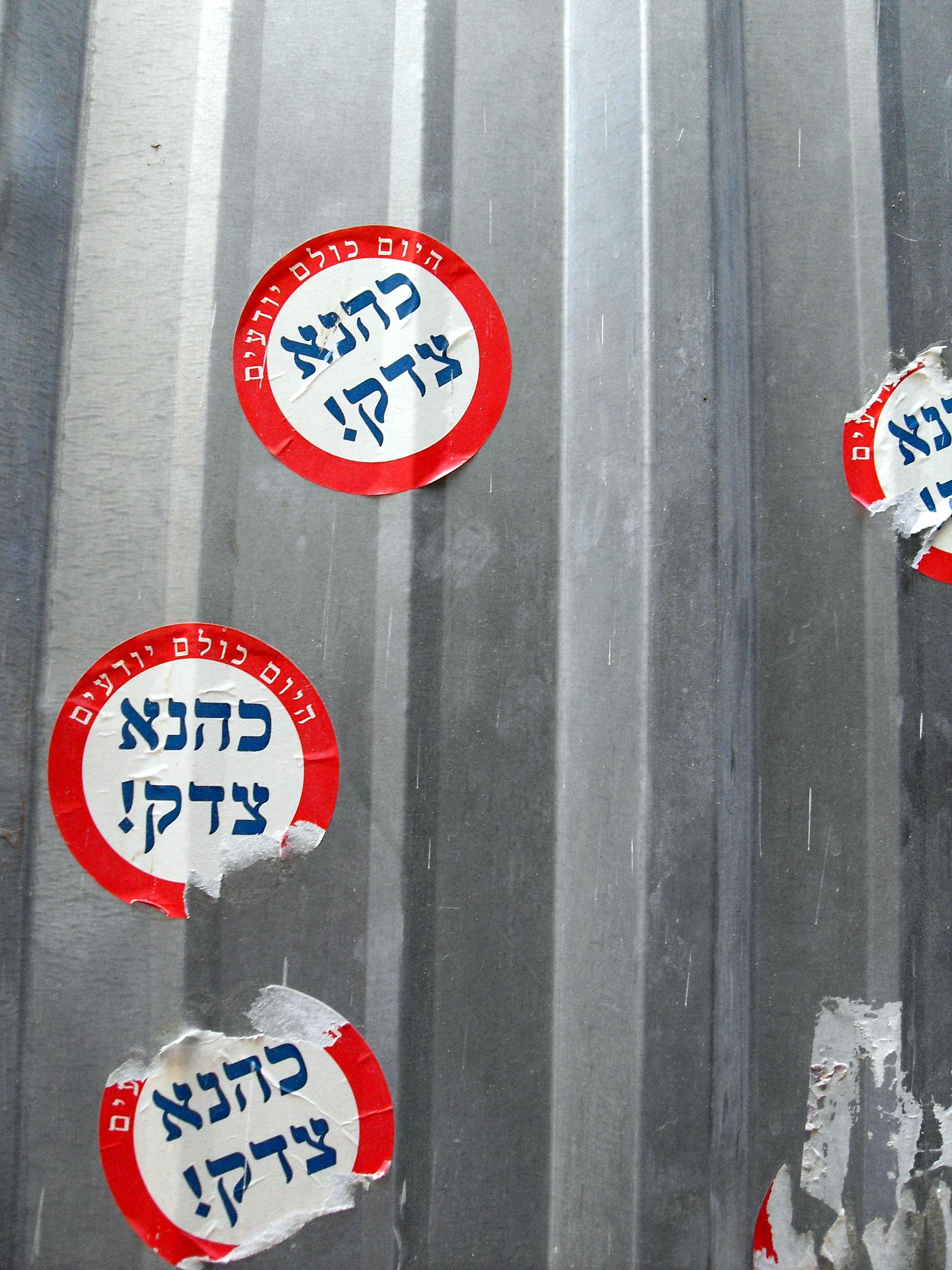 Old Jerusalem, stickers : Today everybody know that Kahane was right